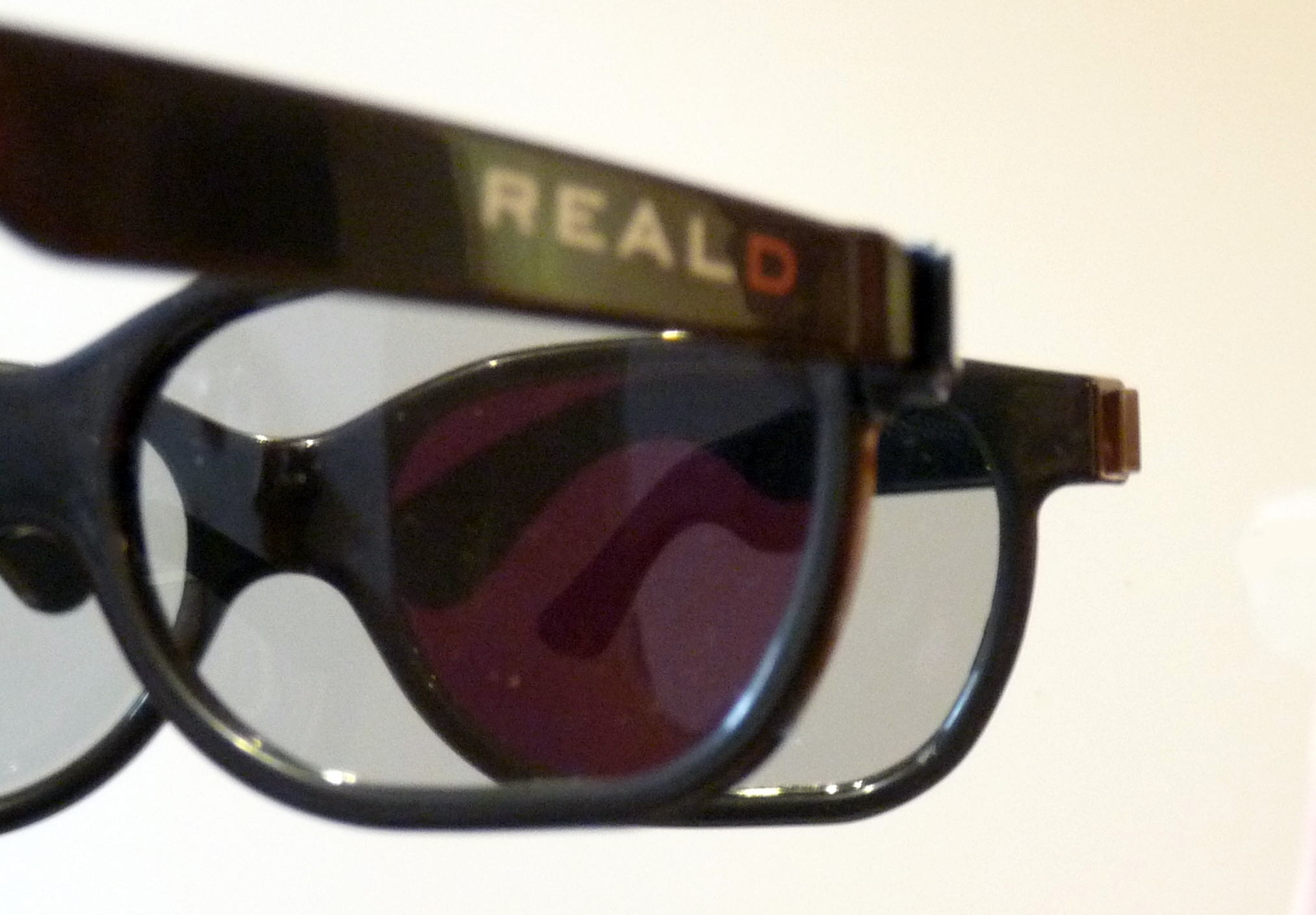 If you look through RealD glasses in a mirror, and you close one eye, you see that vision is blocked. In the picture this effect becomes visible in a part of the right glas. Note that the rear spectacles are the ones in the mirror.